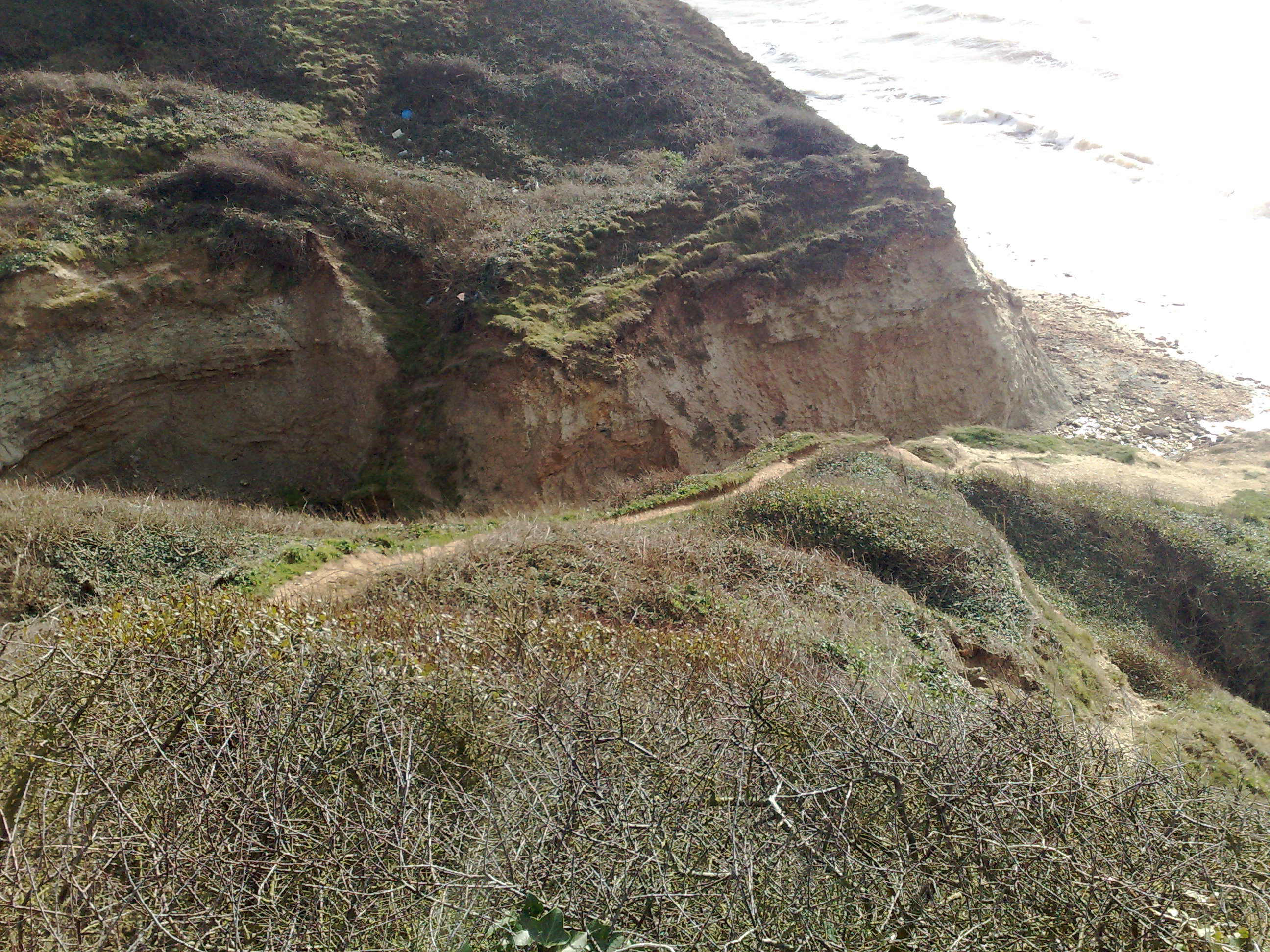 Chilton Chine on the South West coast of the Isle of Wight, UK. Picture is taken from the north edge looking south.